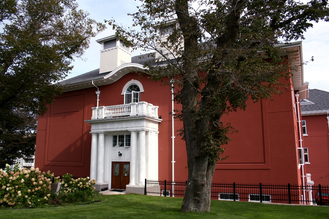 Greenvale School, 130 Ochterloney Street, Dartmouth, Nova Scotia. Photographed 26 Sept. 2012 by Stephanie Clay.